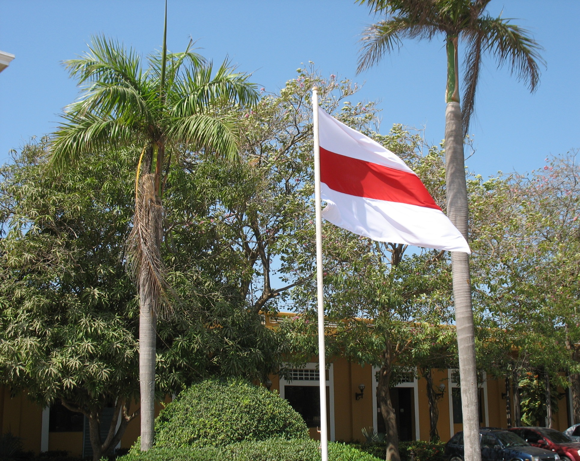 Flag of the departmento of Atlántico, Colombia